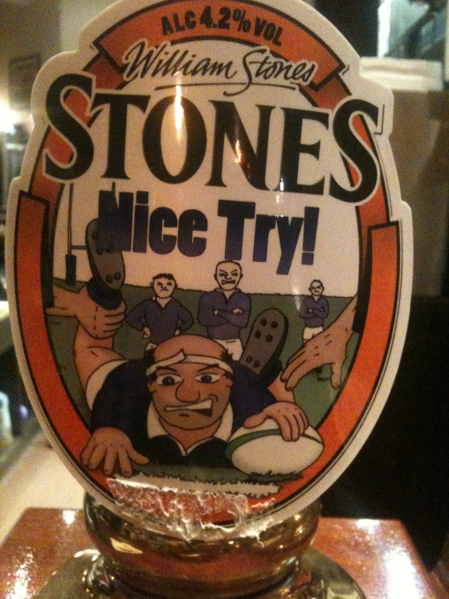 StonesNiceTry